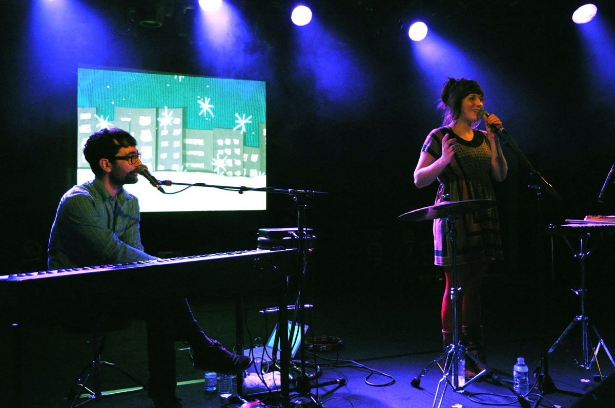 Quebecois band Tricot Machine in concert in Strasbourg, December 2009